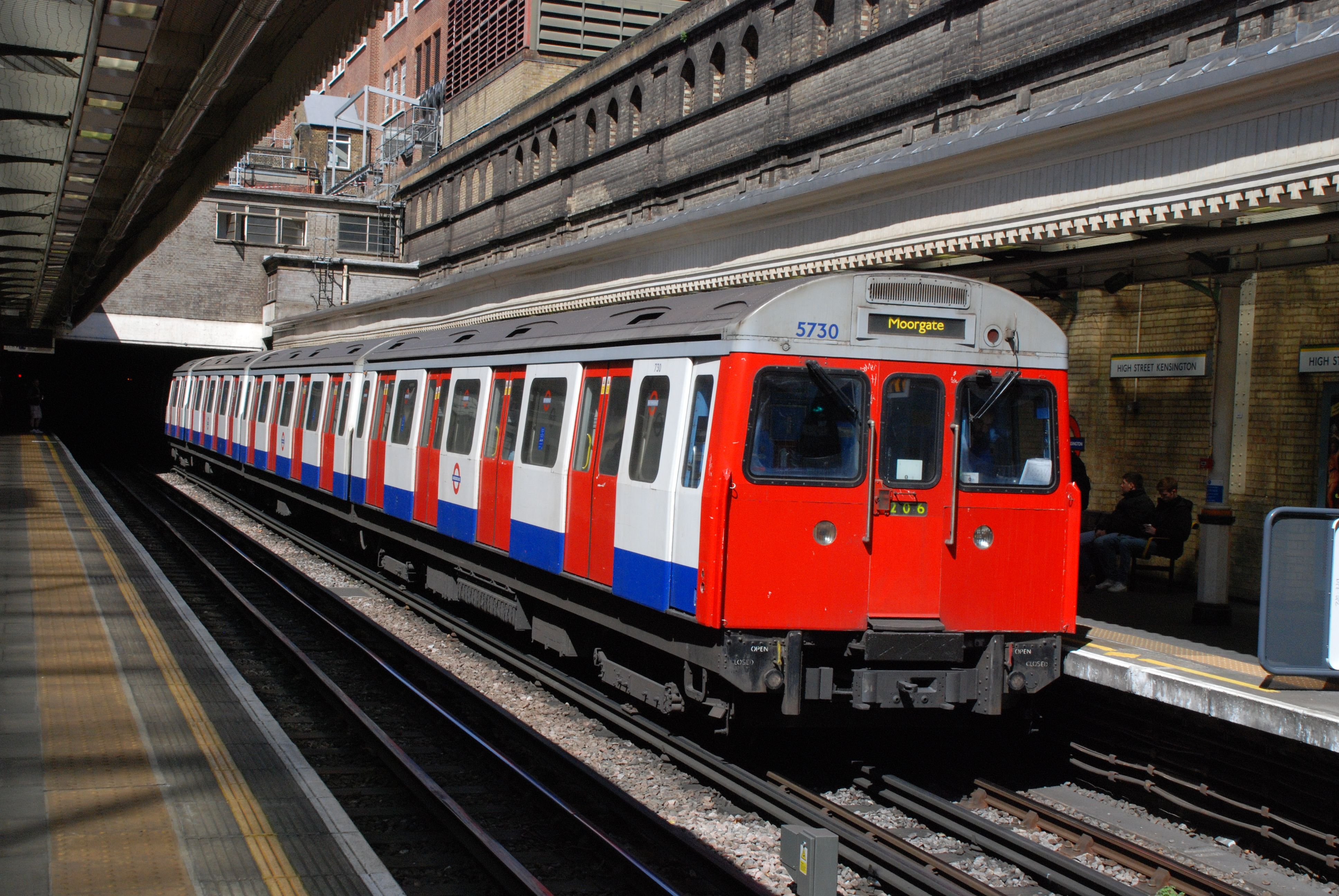 C77 Stock (lead car No.5730) waiting to depart on an inner circle line service to Moorgate.